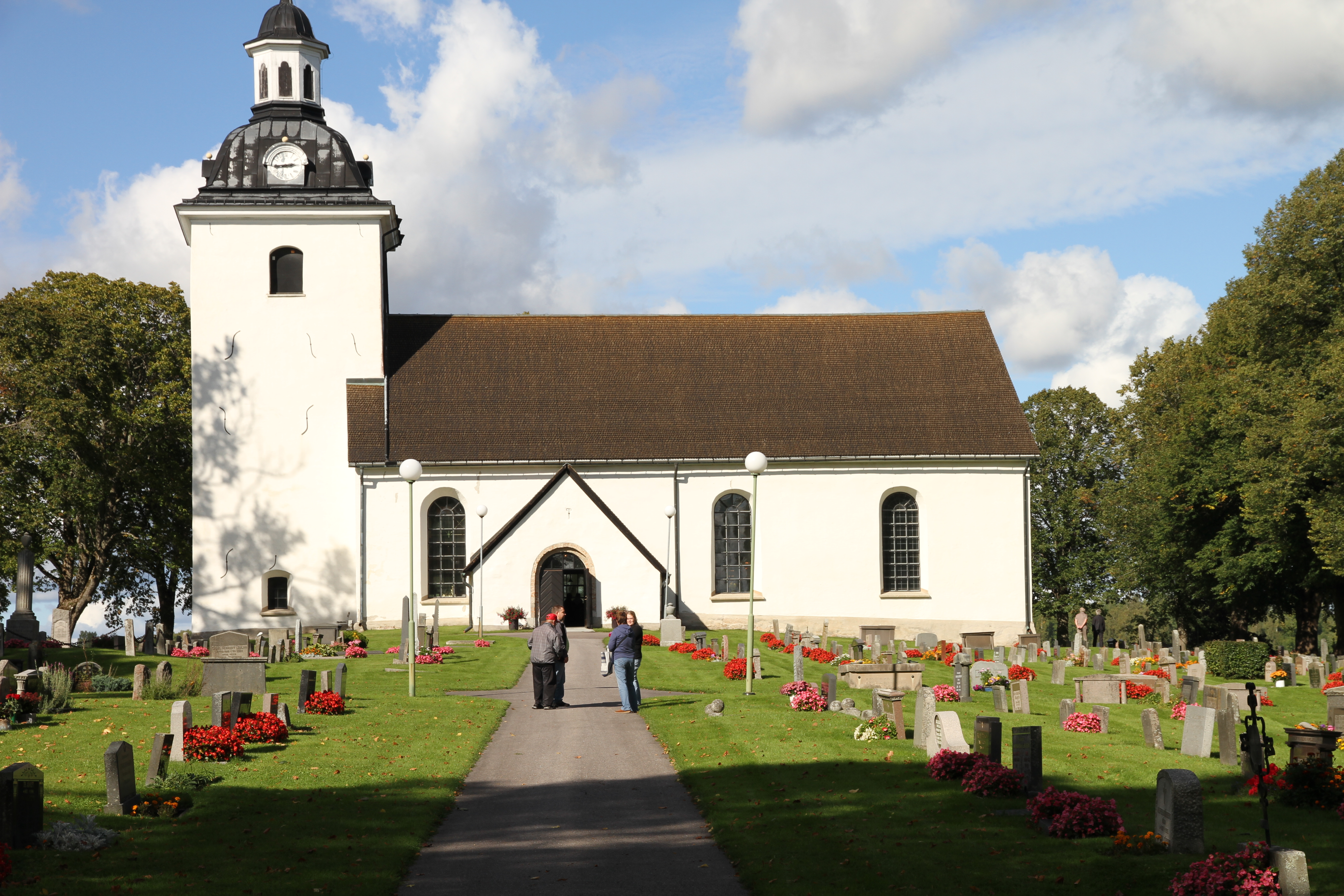 Viby church in Viby, Vretstorp, Sweden.